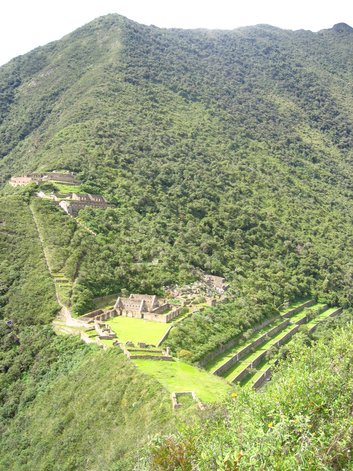 The ruins of Choquequirao